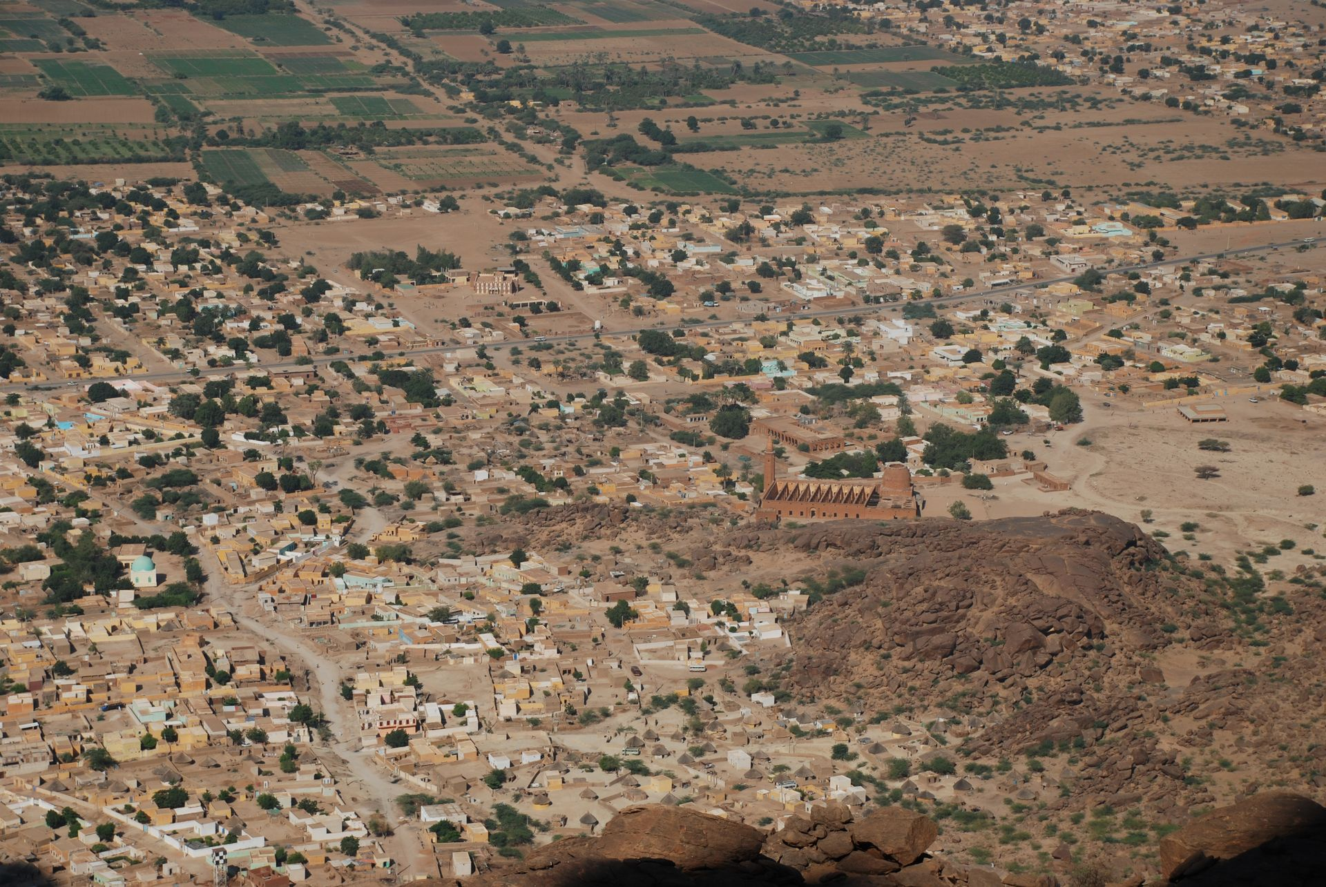 Kassala, Khatmiyya suburb from Totil mountain, Sudan